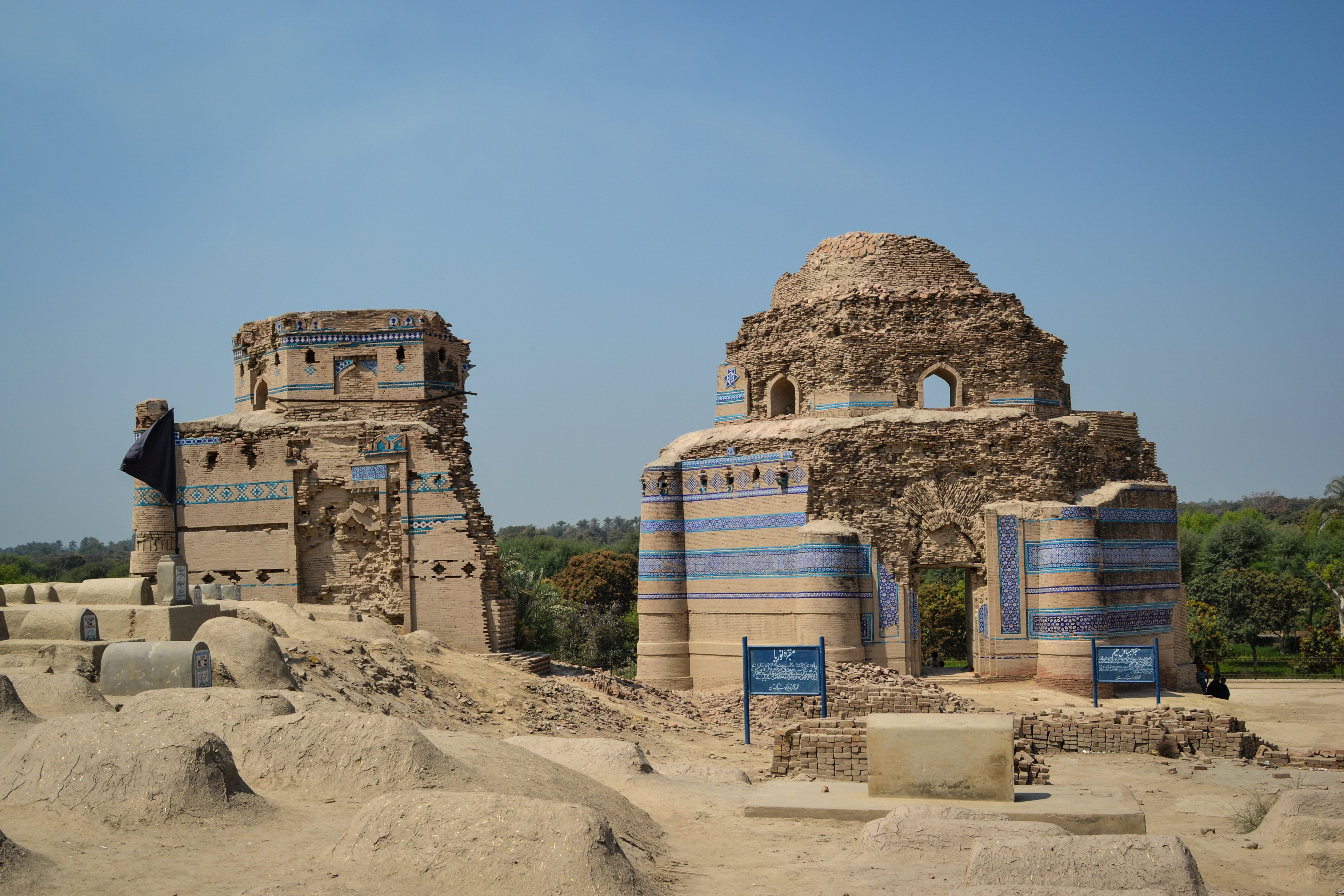 Shrine of Nuriya This is a photo of a monument in Pakistan identified as the PB-18